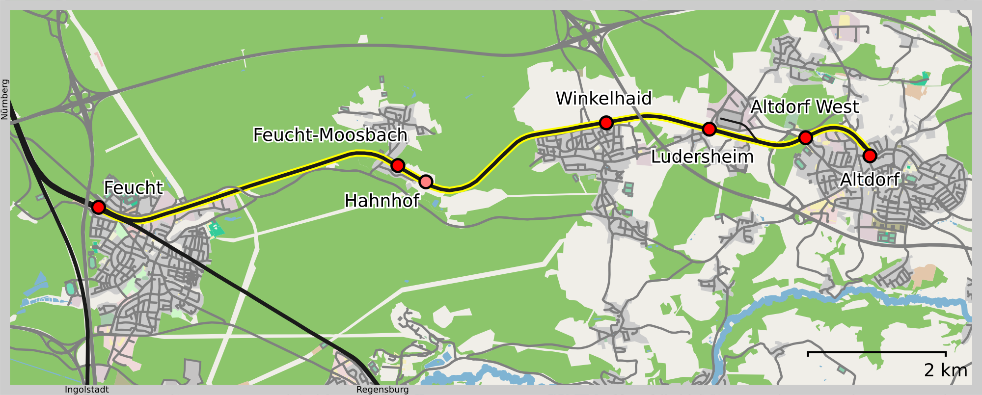 This map the Feucht–Altdorf railway was created from OpenStreetMap project data, collected by the community.This map may be incomplete, and may contain errors. Don't rely solely on it for navigation.